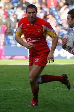 Photo of Dane Carlaw playing for the Catalans Dragons versus Leeds at Murrayfield during the 2009 Magic Weekend.